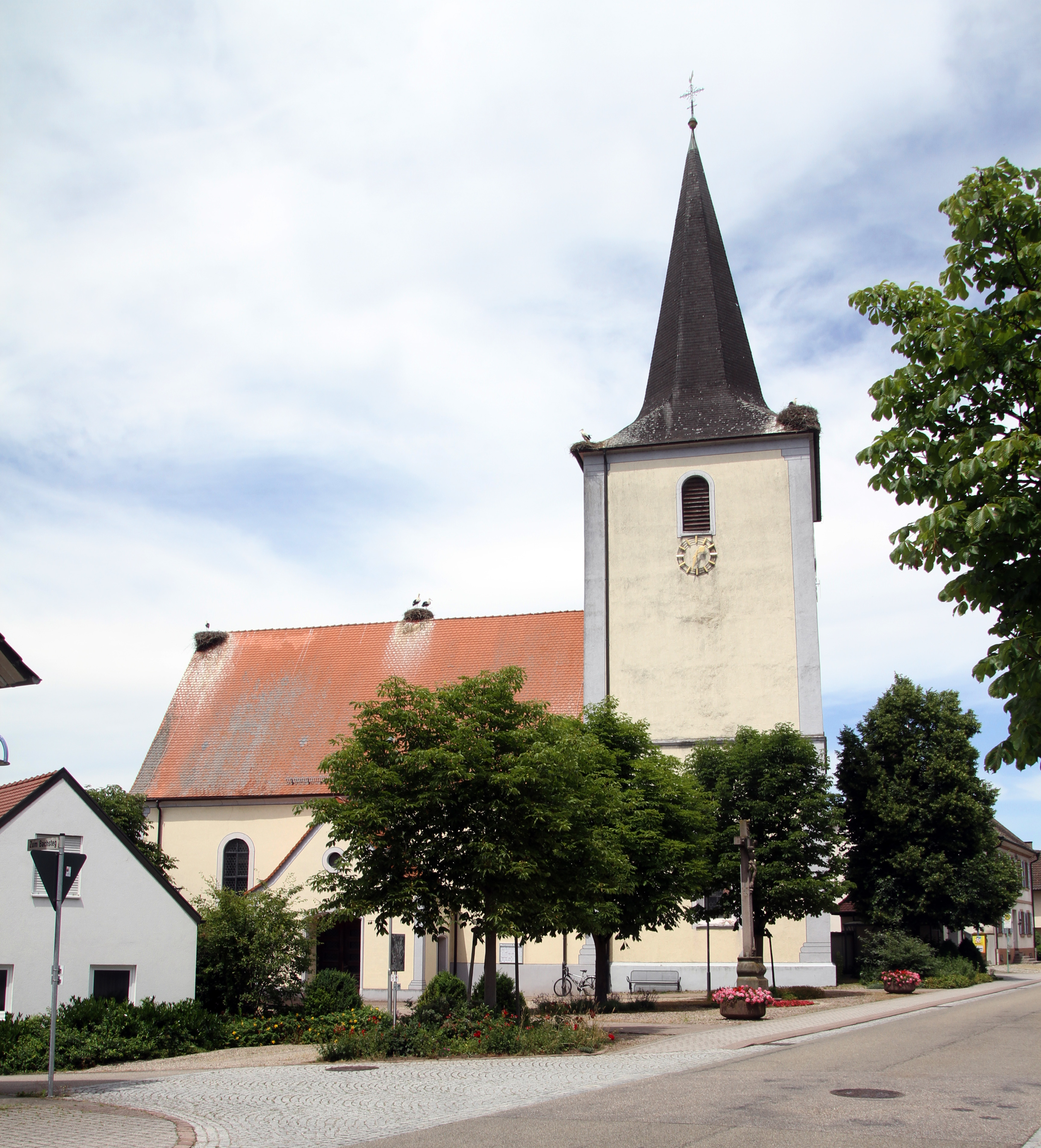 Church of St. Nikolaus in Achern-Gamshurst.